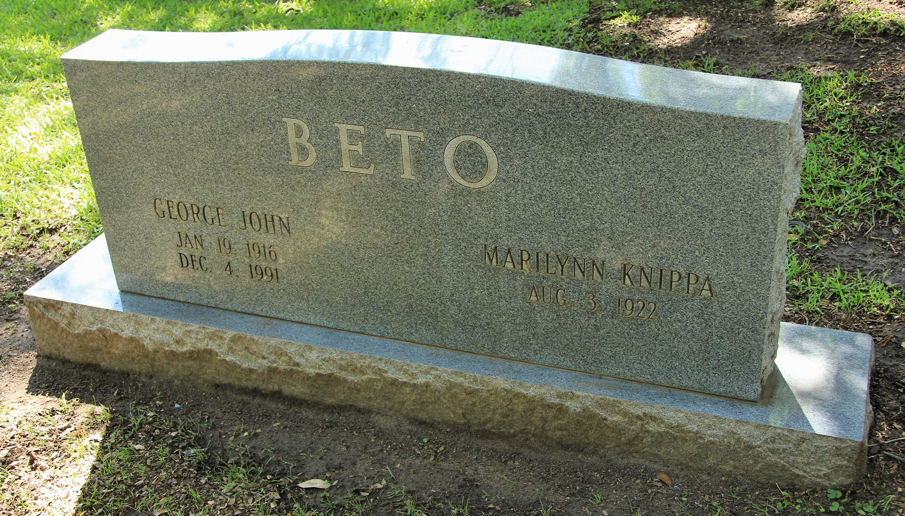 The grave of George John Beto at the Texas State Cemetery in Austin, Texas, United States.